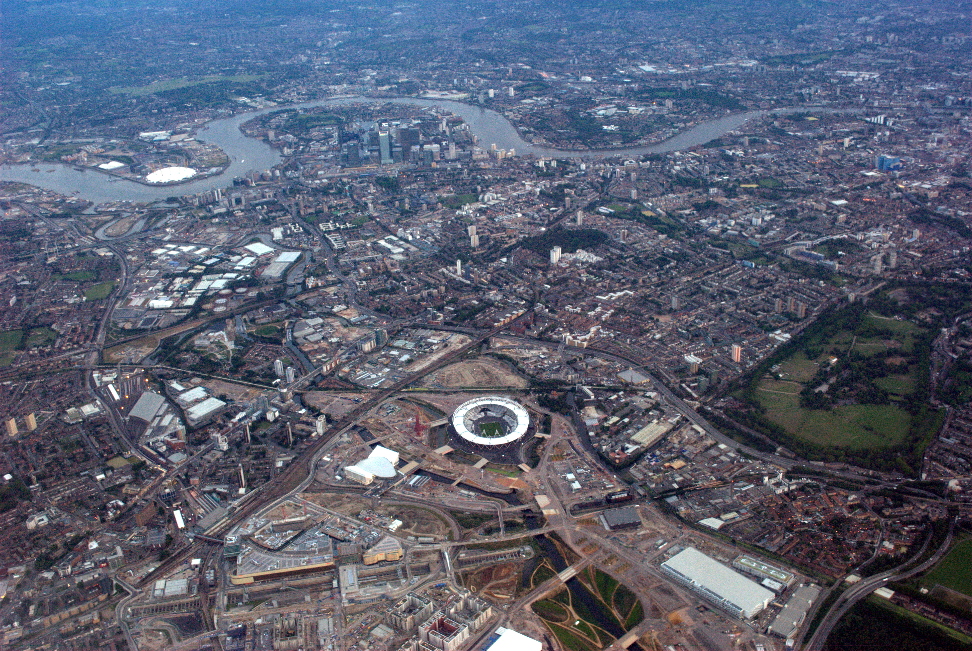 Construction of Olympic Park, London — June 2011. Aerial view of the Olympic Park and Stratford shot looking south, with the River Thames at top. Credits This photo is an own work. Picture taken on 14 June 2012.. Feel free to use it to improve OpenStreetMap. If you have rectified this image, please post a comment to help others. download hi res (6.5MB) Also on panoramio